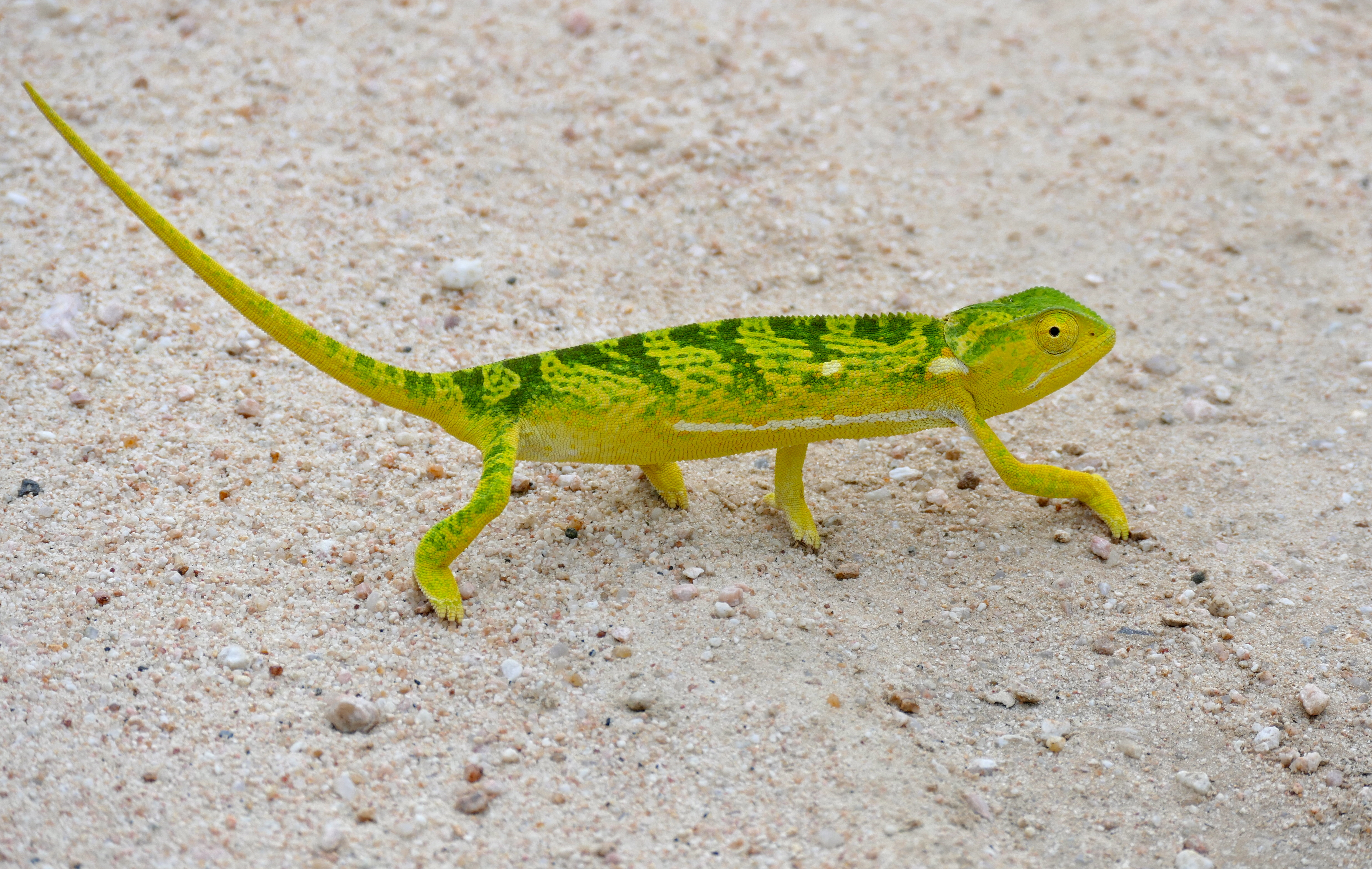 Tamboti Camp Access Road, Kruger NP, SOUTH AFRICA